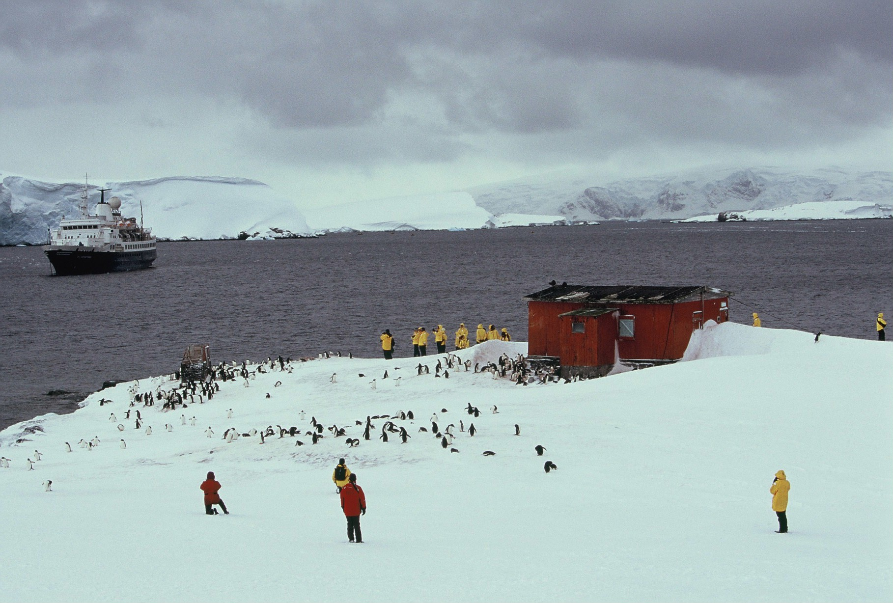 Groussac Naval Refuge (Argentine Navy) on Petermann Island, Antarctica